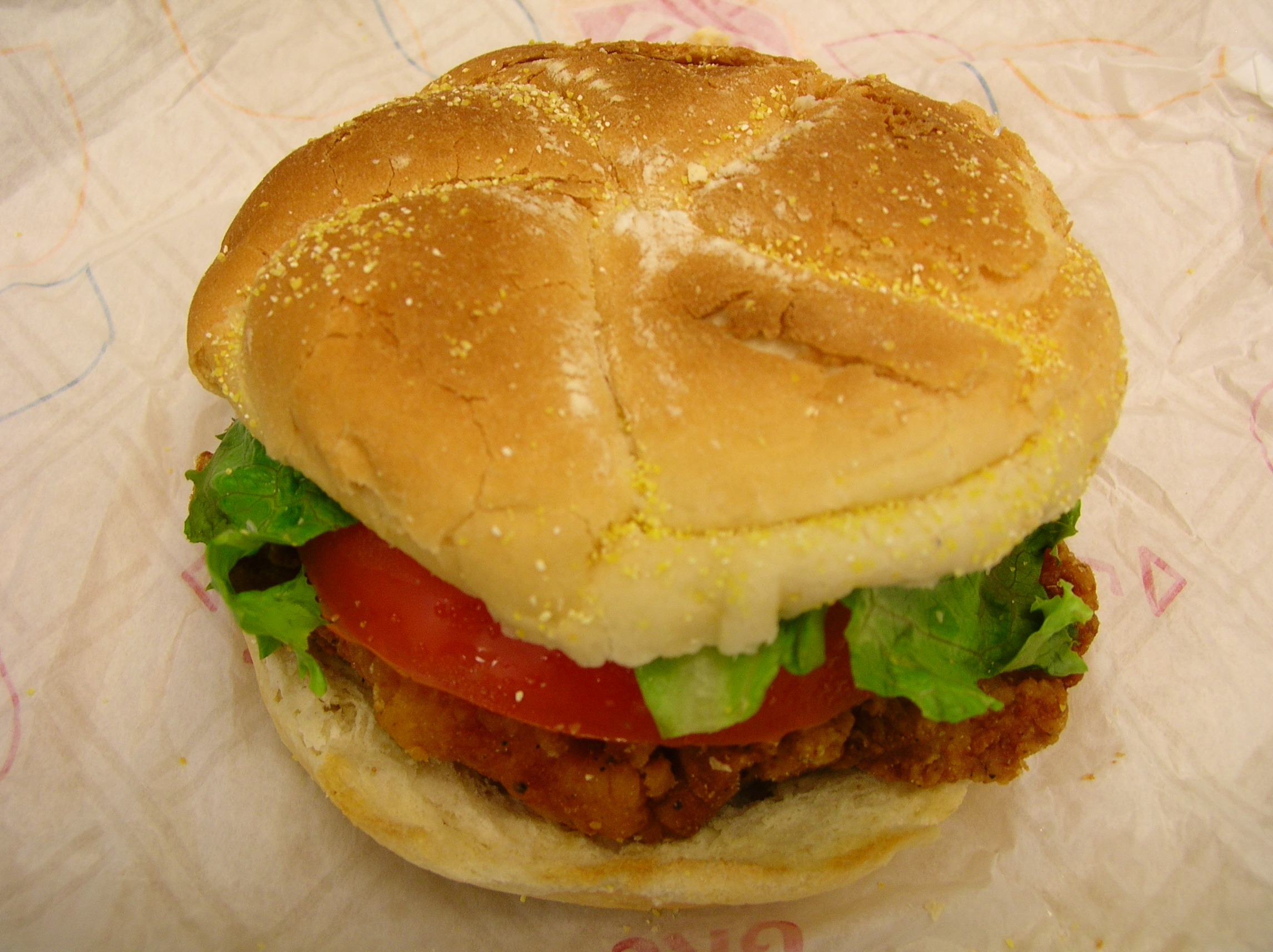 A DQ Crispy Chicken sandwich